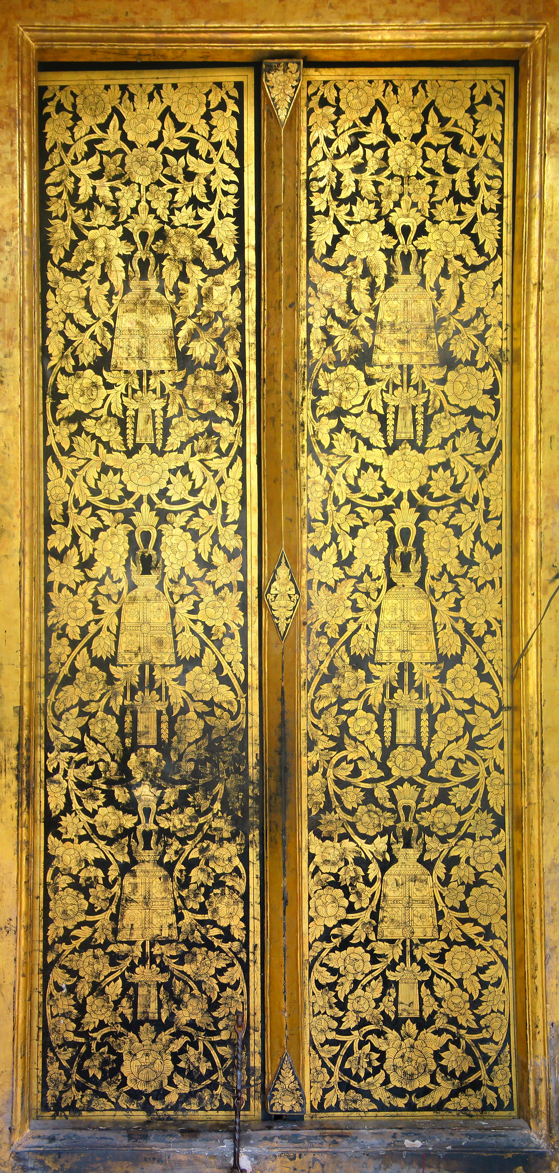 Doorpanels of ubosot in Wat Rakhang, Bangkok Noi district, Bangkok, Thailand (panorama composed from five separate photos using Photomerge from Adobe's PhotoshopCS3)